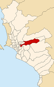 Map of Lima highlighting the Ate district in eastern Lima.